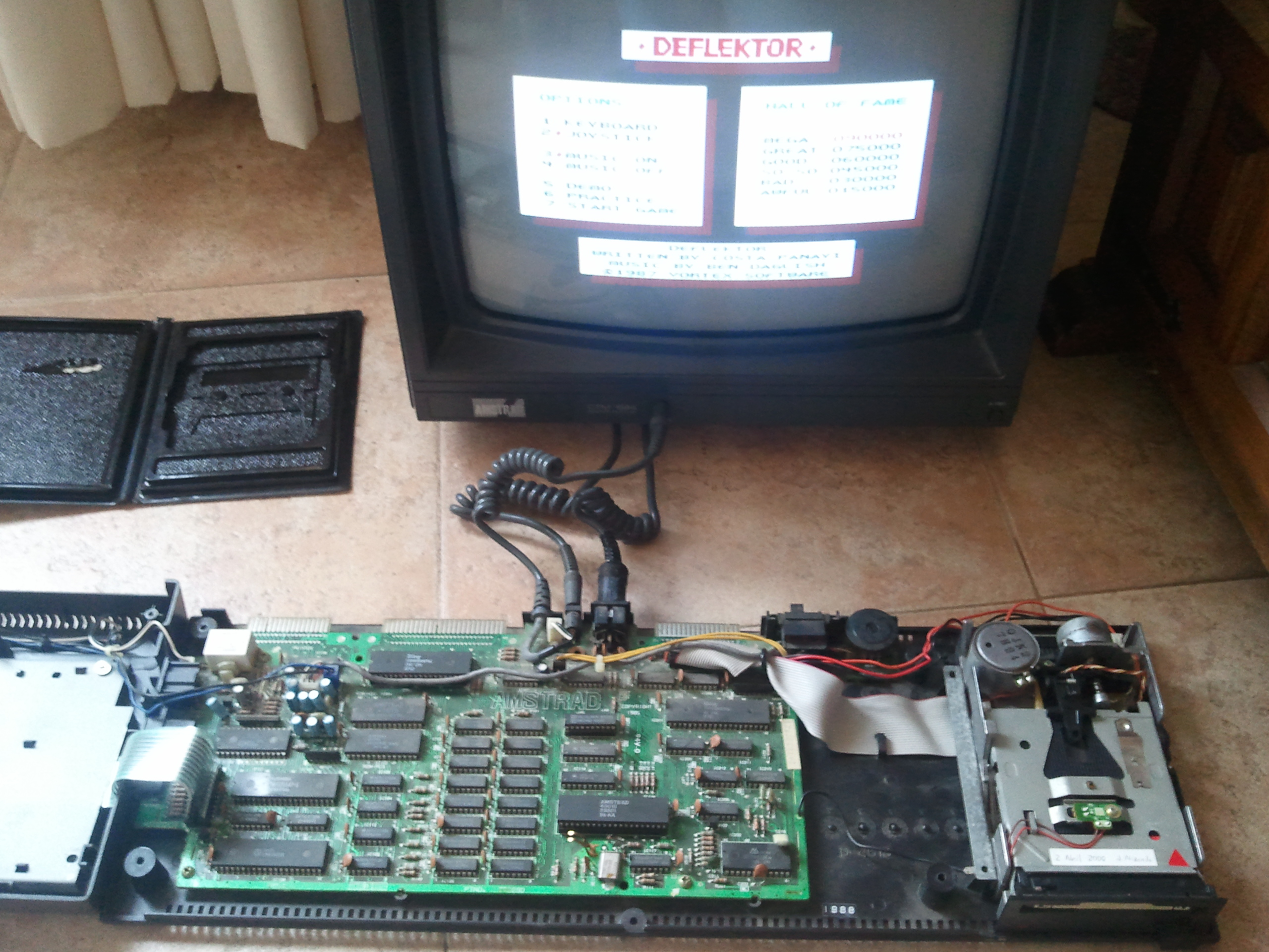 Amstrad CPC6128 with its keyboard removed.This file has annotations. If they do not work for the Wikimedia project this file is used on, please go to the description page on Commons.